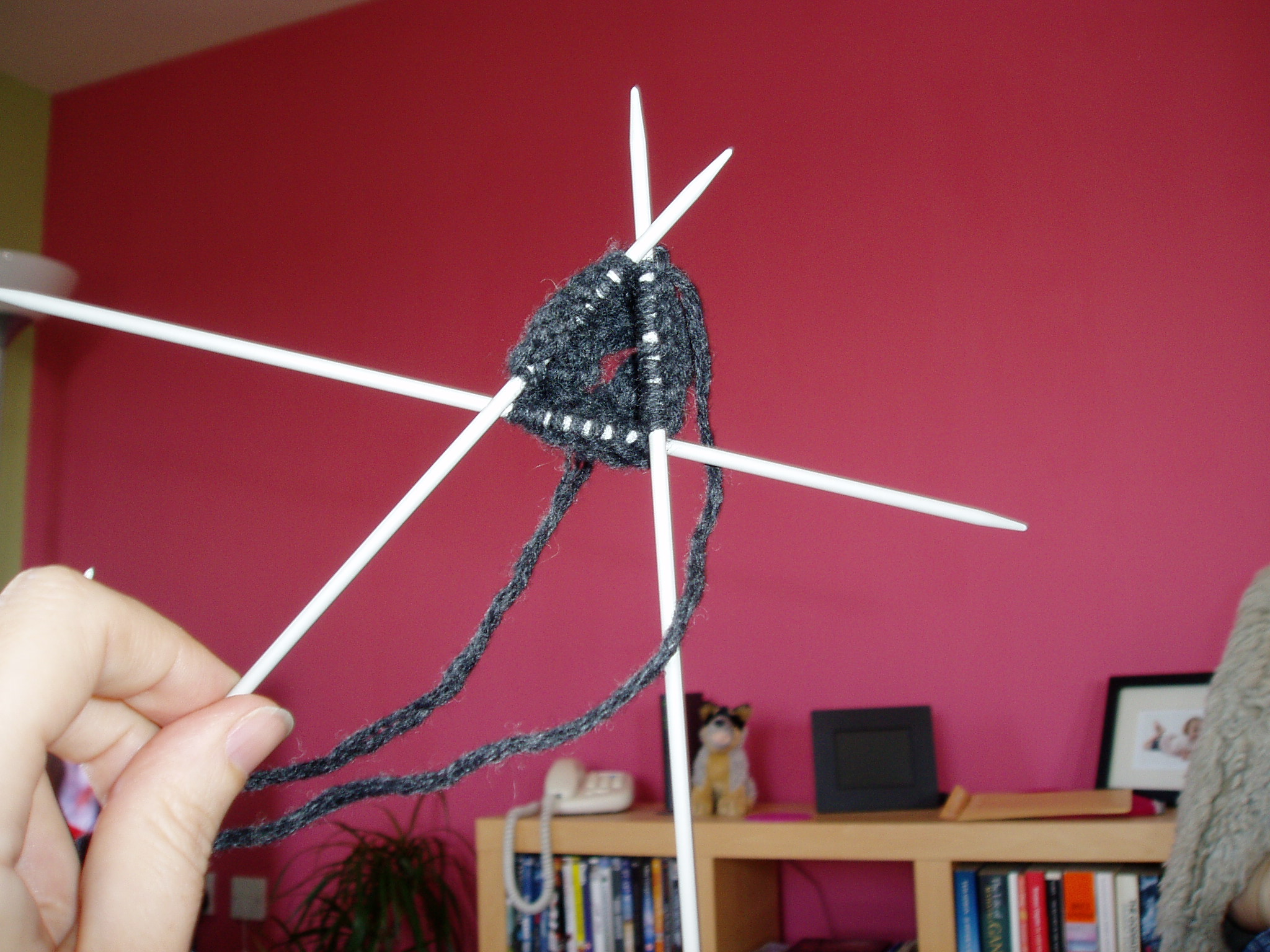 Original caption: Today I'm practising knitting on double pointed needles ready for my next awesome project.